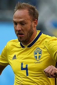 2018 FIFA World Cup Match 55, Sweden v Switzerland